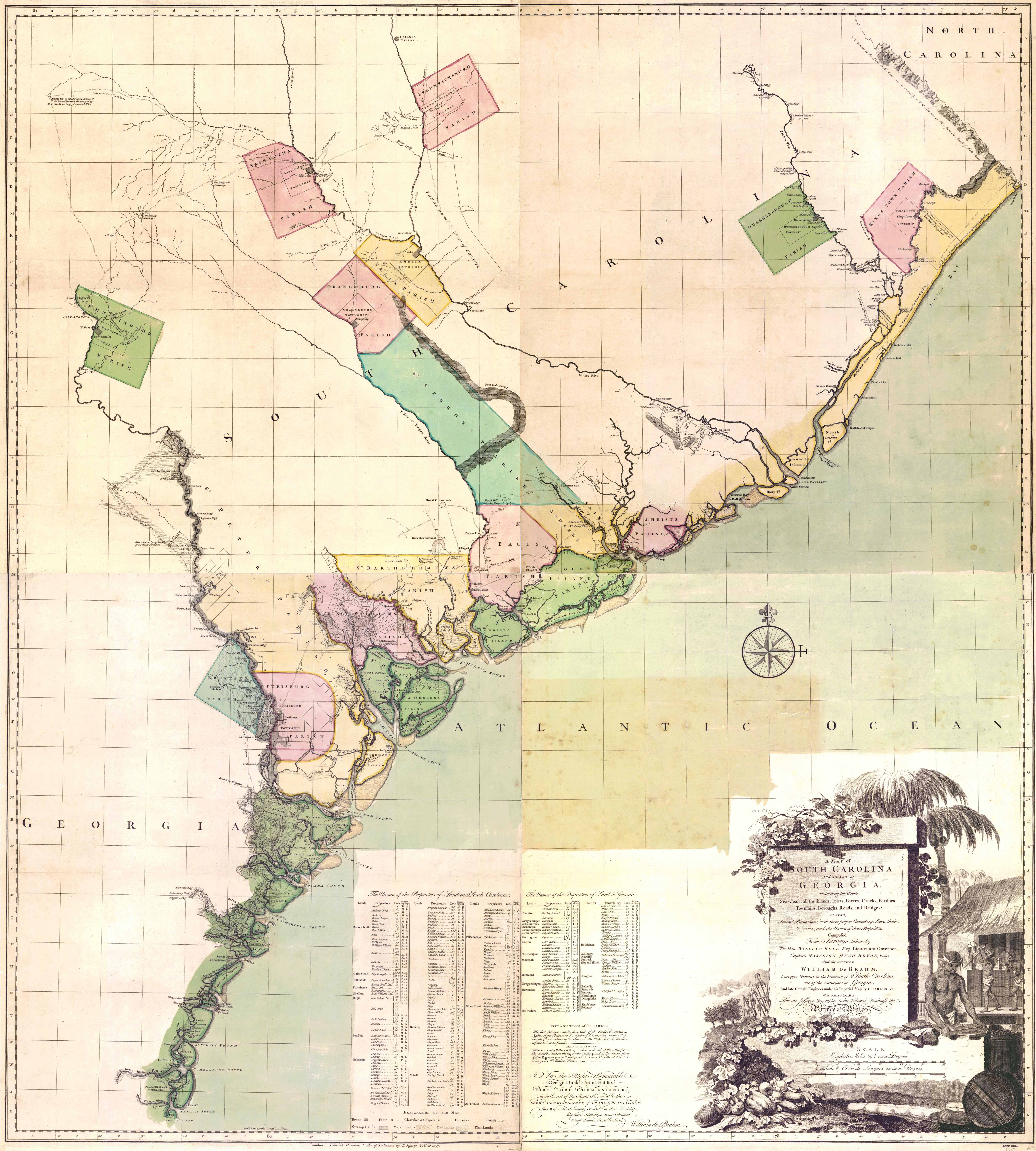 "A Map of South Carolina and a Part of Georgia"